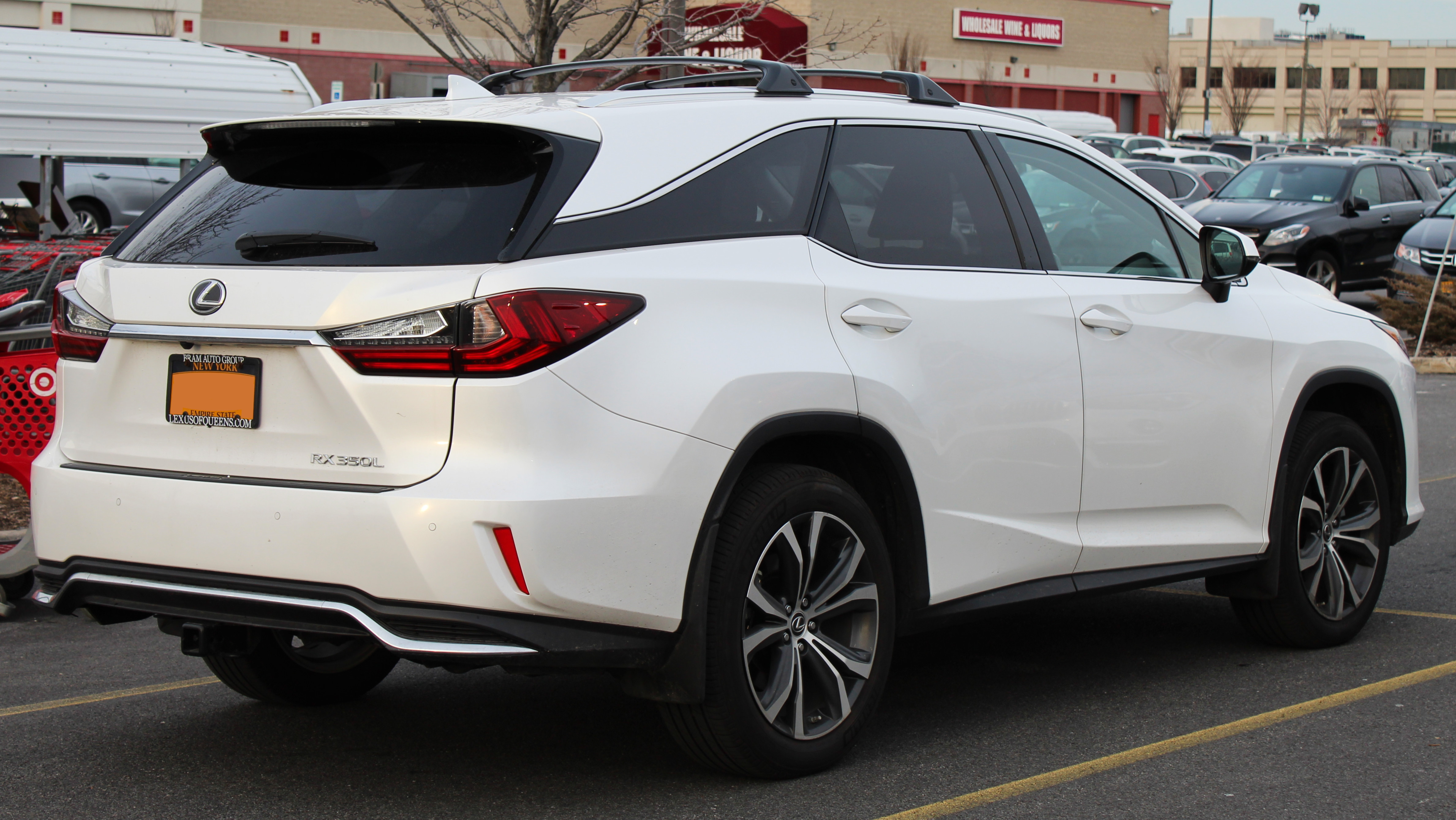 A 2018 Lexus RX 350L photographed in College Point, Queens, New York, USA